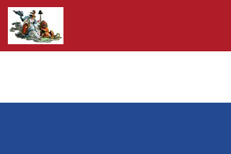 The flag of the Batavian Republic